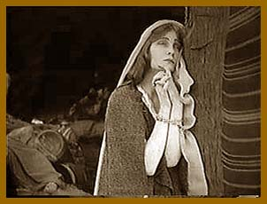 Still of Mae Marsh in Judith of Bethulia (1914).